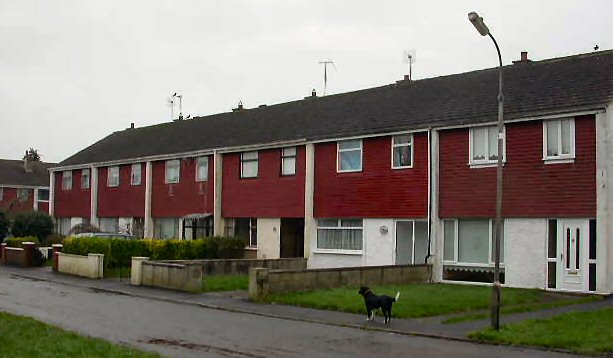 Tithiocht priobhadach blianta na 1960i, Bruach na Sionainne